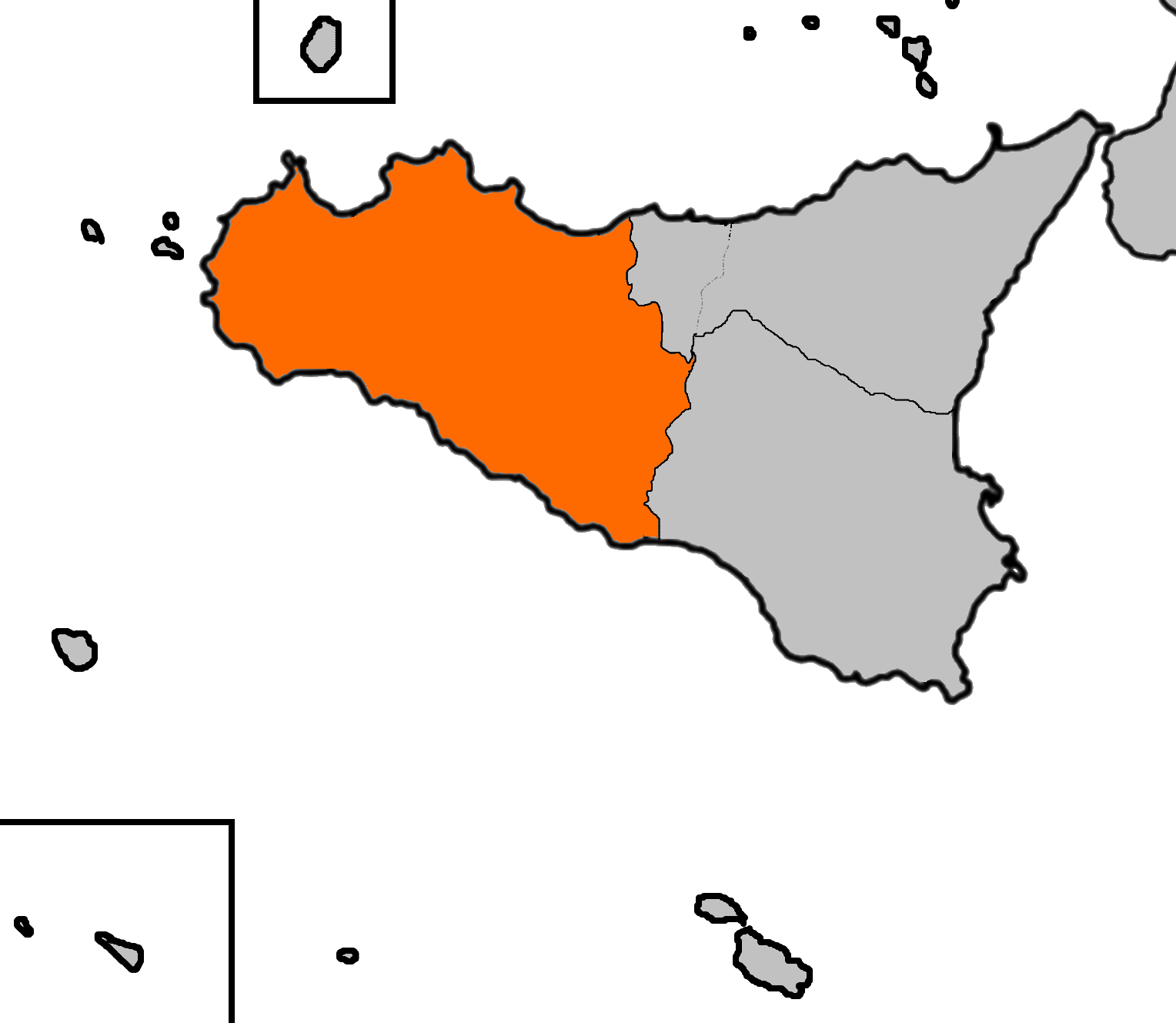 Localisation map of the Val di Mazara around the year 1720.